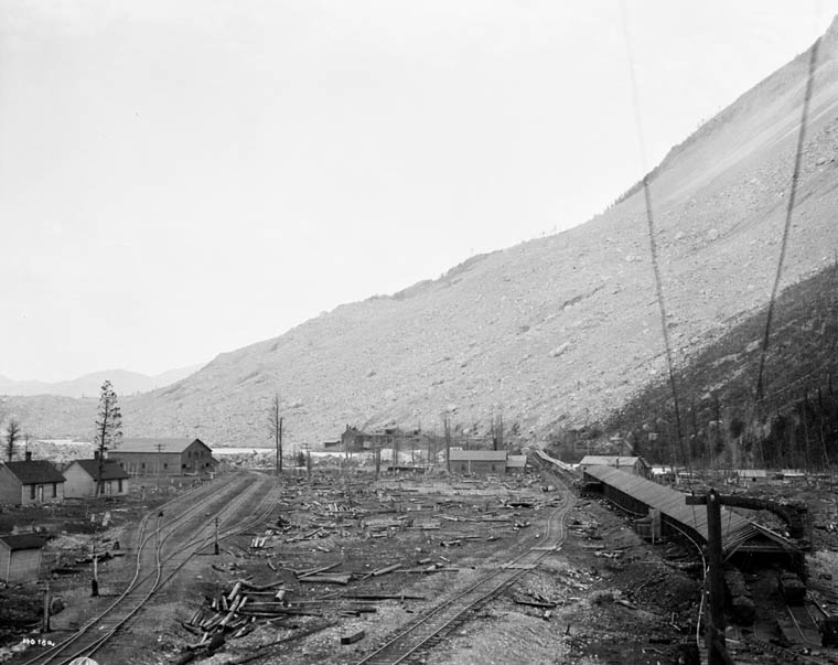 Rock talus of the Frank landslide of 1903.